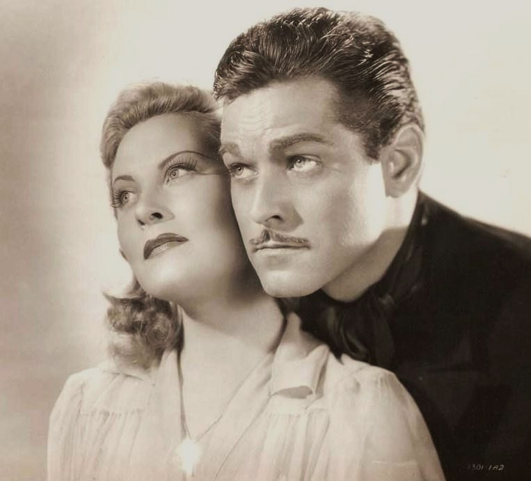 Michèle Morgan & Alan Curtis in Two Tickets to London - publicity still (cropped : see source)